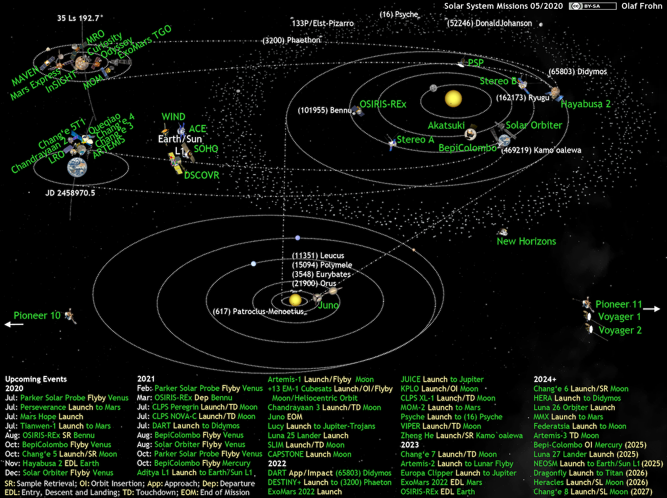 A diagram of active space missions traveling beyond Earth orbit, May 2020.